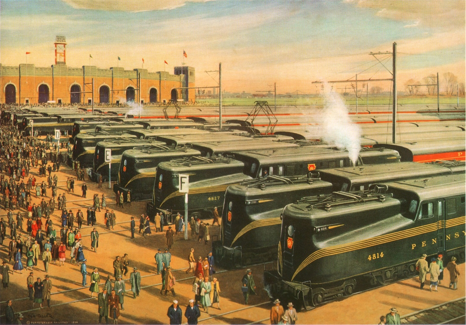 Mass Transportation (Army-Navy Game), Griffith Teller's illustration for the 1955 Pennsylvania Railroad calendar. Beginning in 1936 when the game moved to Municipal Stadium, the Pennsylvania Railroad operated special game-day service with around 40 trains serving as many as 30,000 of the attendees. To do this, the PRR modified their Delaware Extension and West Philadelphia Elevated Branch freight lines and installed massive temporary platforms at Greenwich Yard.